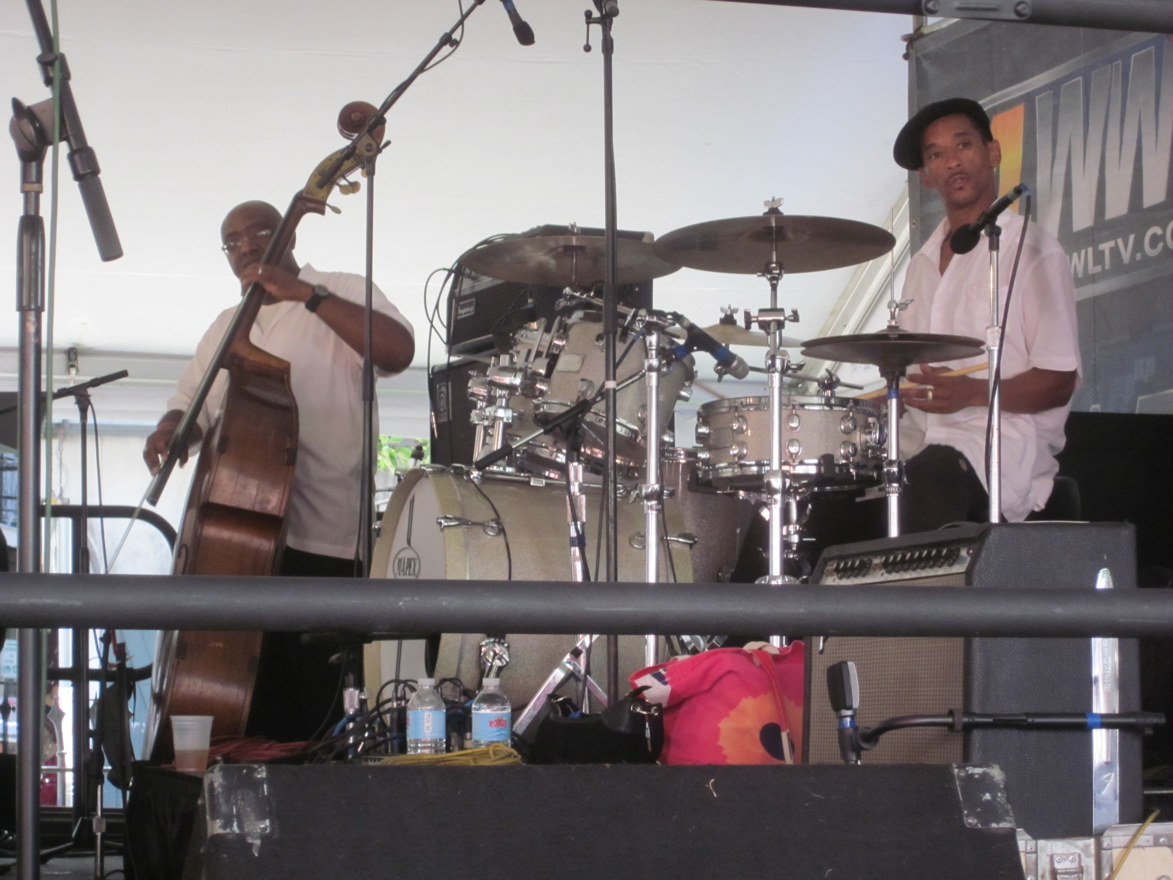 Satchmo SummerFest 2012 on the grounds of the Old Mint, French Quarter, New Orleans.